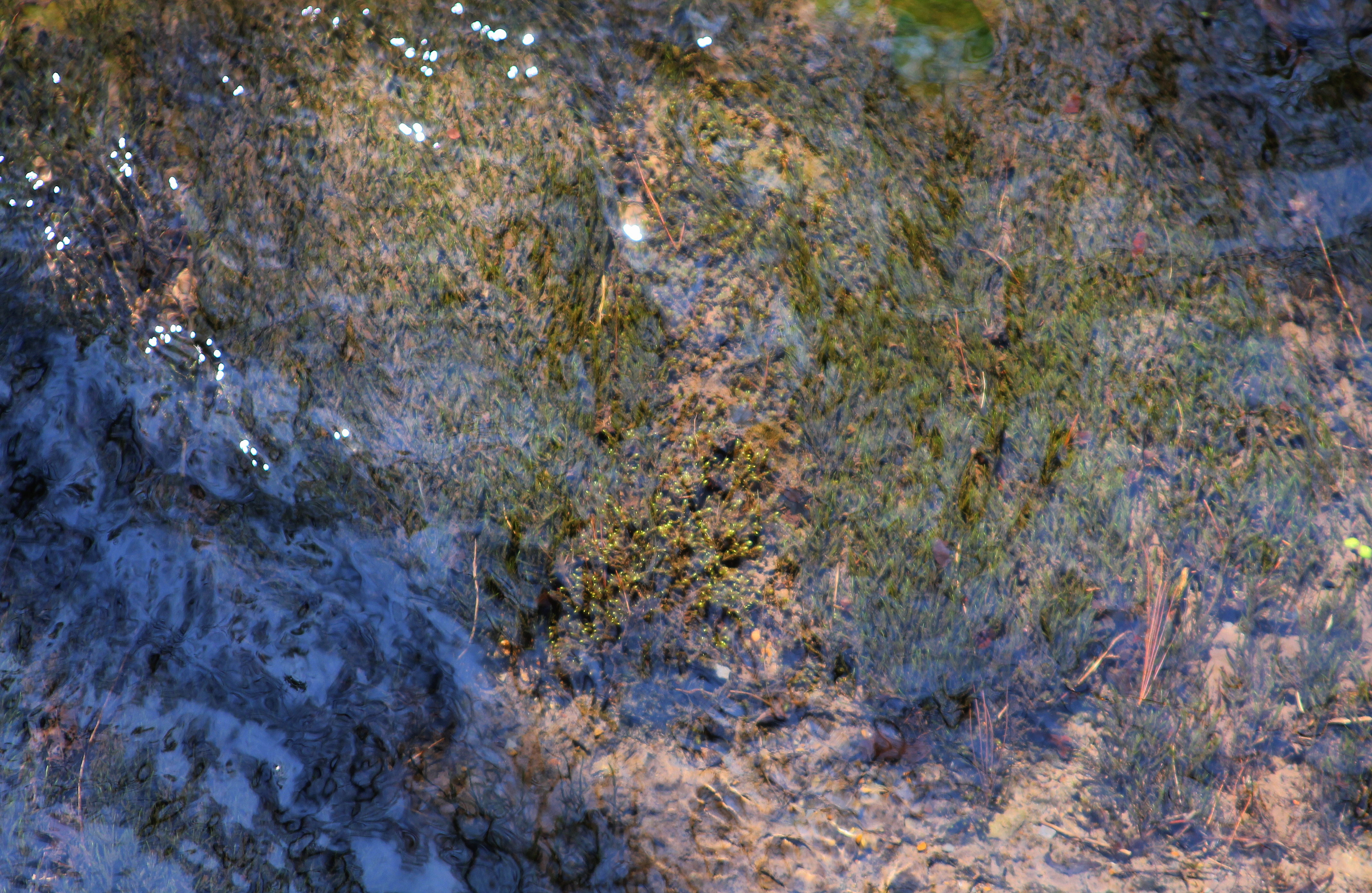 Aquatic plants in Mile Run, a tributary of White Deer Creek in Union County, Pennsylvania.